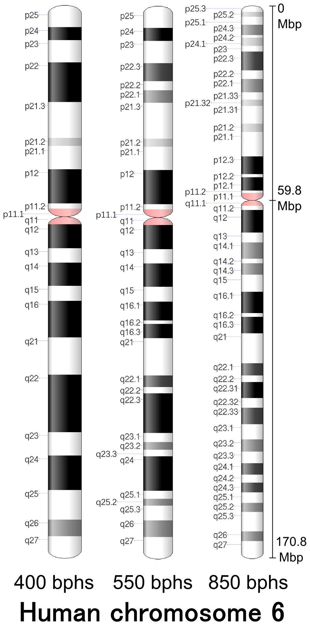 Ideograms of G-band pattern of human chromosome 6 in three different resolutions (400, 550 and 850 bphs, bands per haploid set). Different resolutions are corresponding to different band patterns observed through mitotic phase (about relation between banding resolution and mitotic phase, see, for example, Fig.3 in W Sethakulvichaia (2012)). Legend: Black and gray is Giemsa positive. Red is centromere. Light blue is variable region. Dark blue is stalk. At the right, centromere position (center) and q arm terminus position (bottom), counted from p arm terminus (top) in Mbp (mega base pairs), are labeled. Physical length (sometimes referred as "absolute length") is not labeled. Because physical length of chromosomes vary while mitosis. (typical human chromosome physical length is in the order of from several micrometers to ten and several micrometers. See, for example, Category:Human chromosome images with scale bars.).